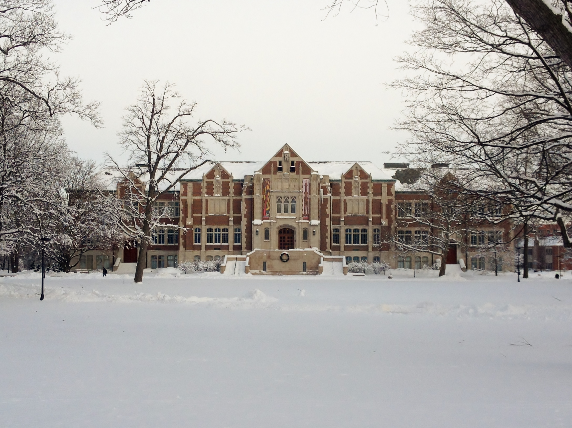 This photo was taken from behind the Beneficence statue, facing the Fine Arts Building over a snow covered Quad.